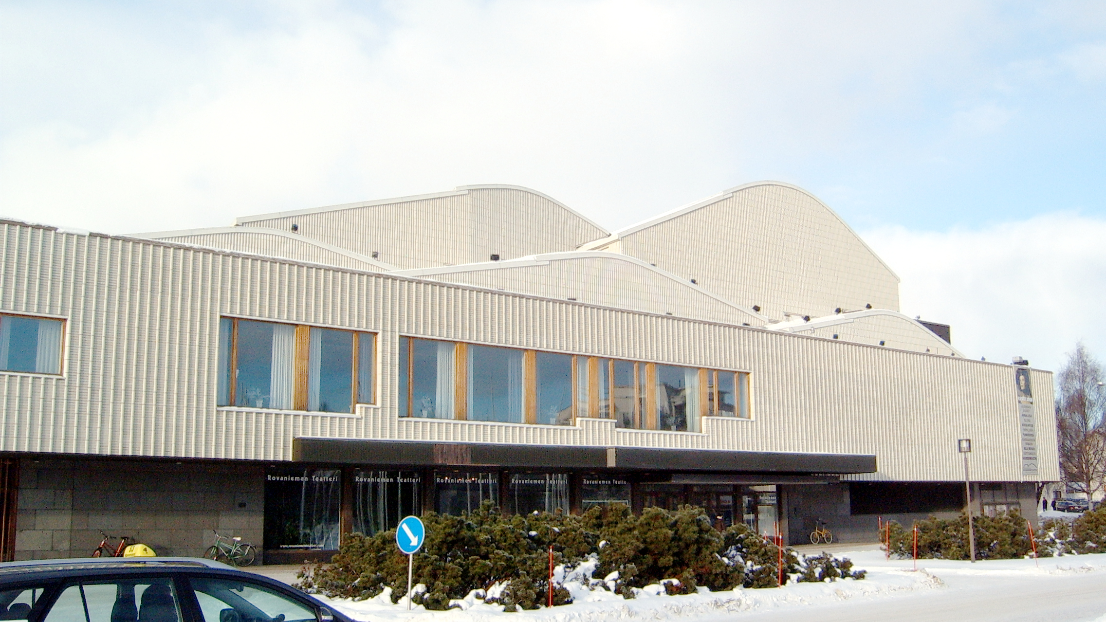 Lappia house in Rovaniemi, Finland